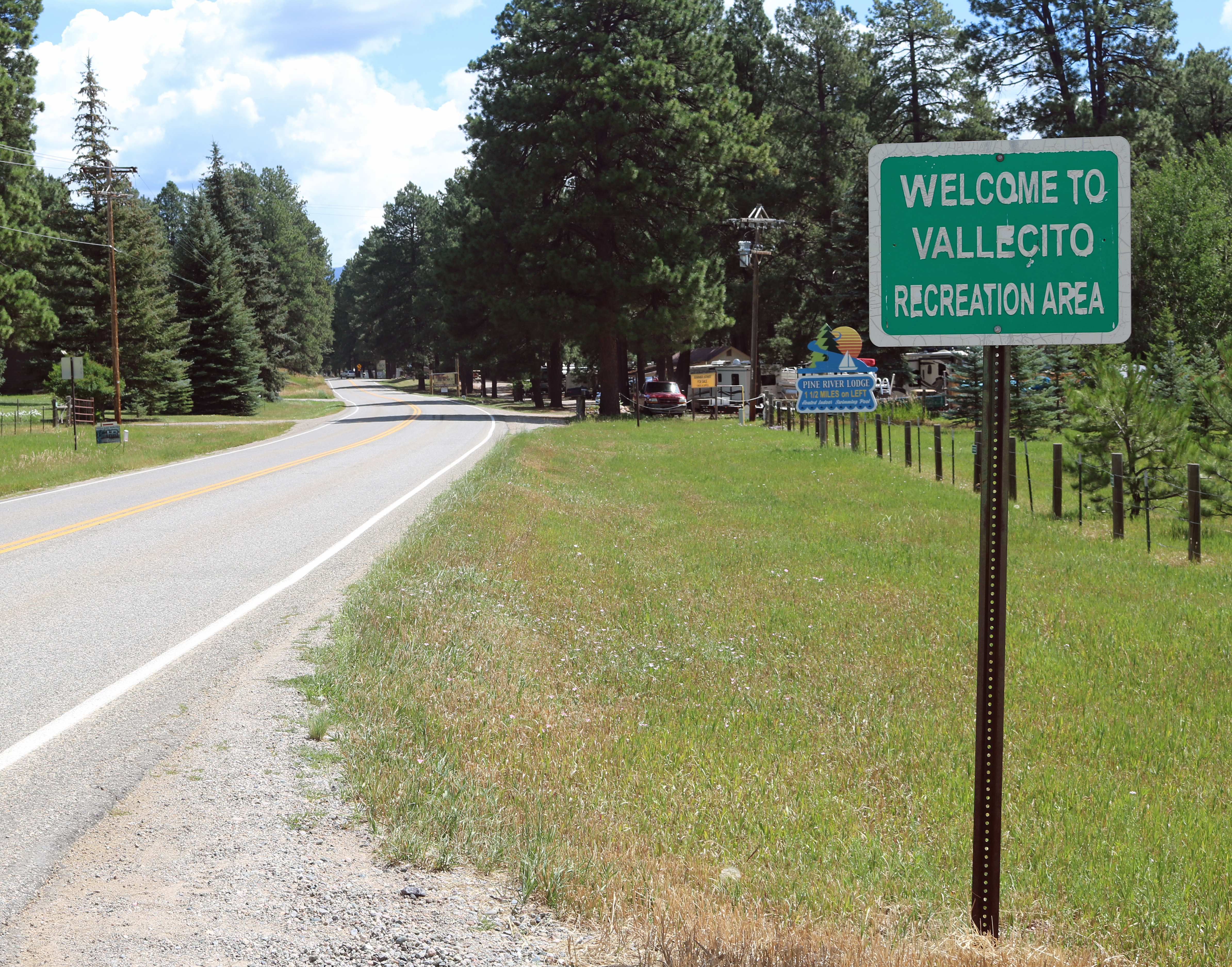 The unincorporated community of Vallecito, Colorado in La Plata County. The road in the picture is La Plata County Road 501.